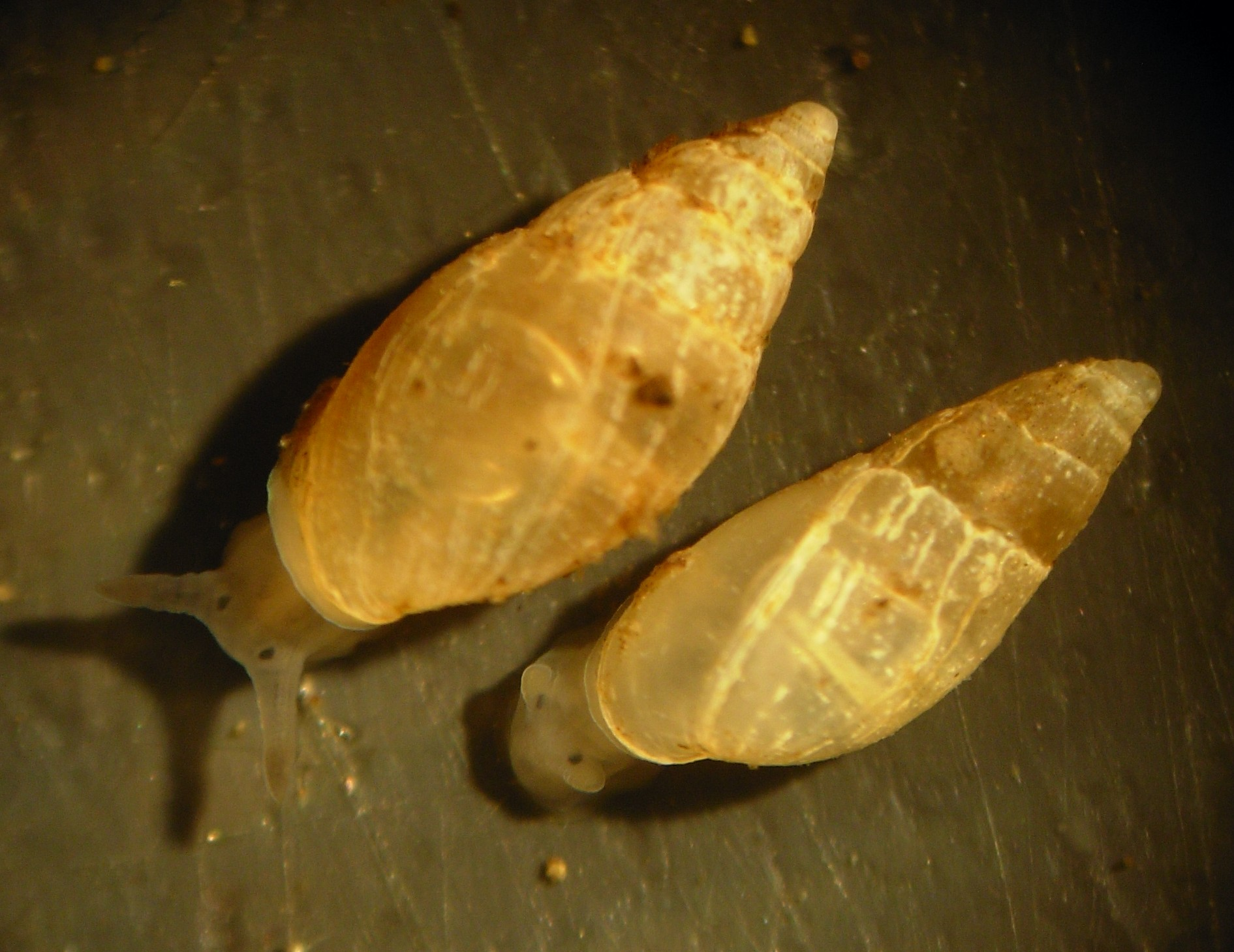 Auriculinella bidentata (Montagu, 1808) (synonyms: Myosotella myosotis, Ovatella myosotis on the left, and Leucophytia bidentata, synonym: Auriculinella bidentata on the right.